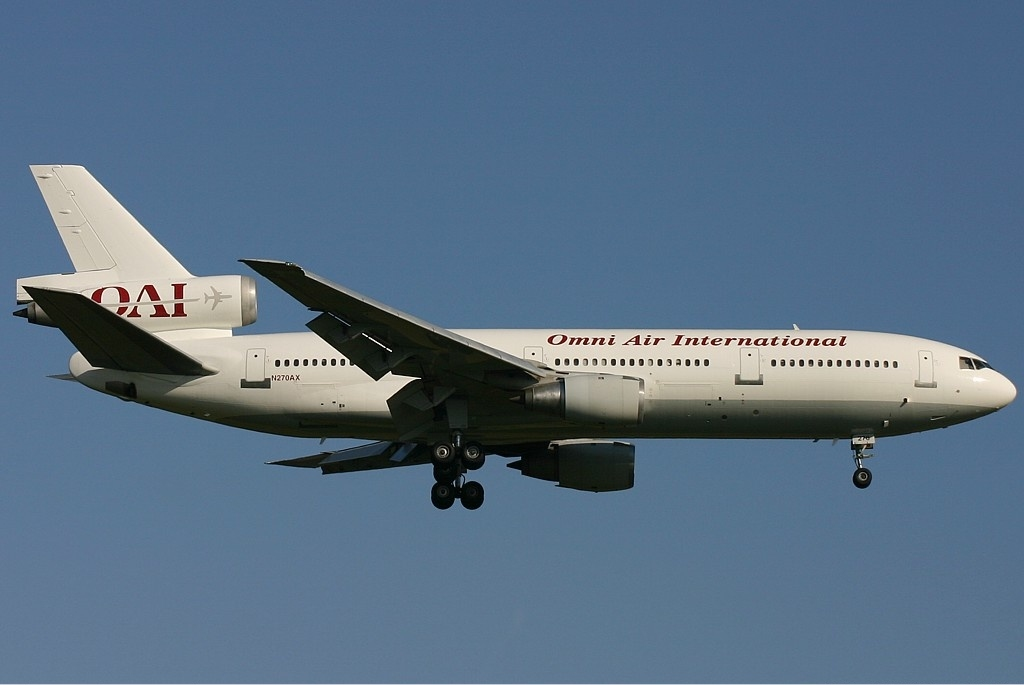 Omni Air International McDonnell Douglas DC-10-30